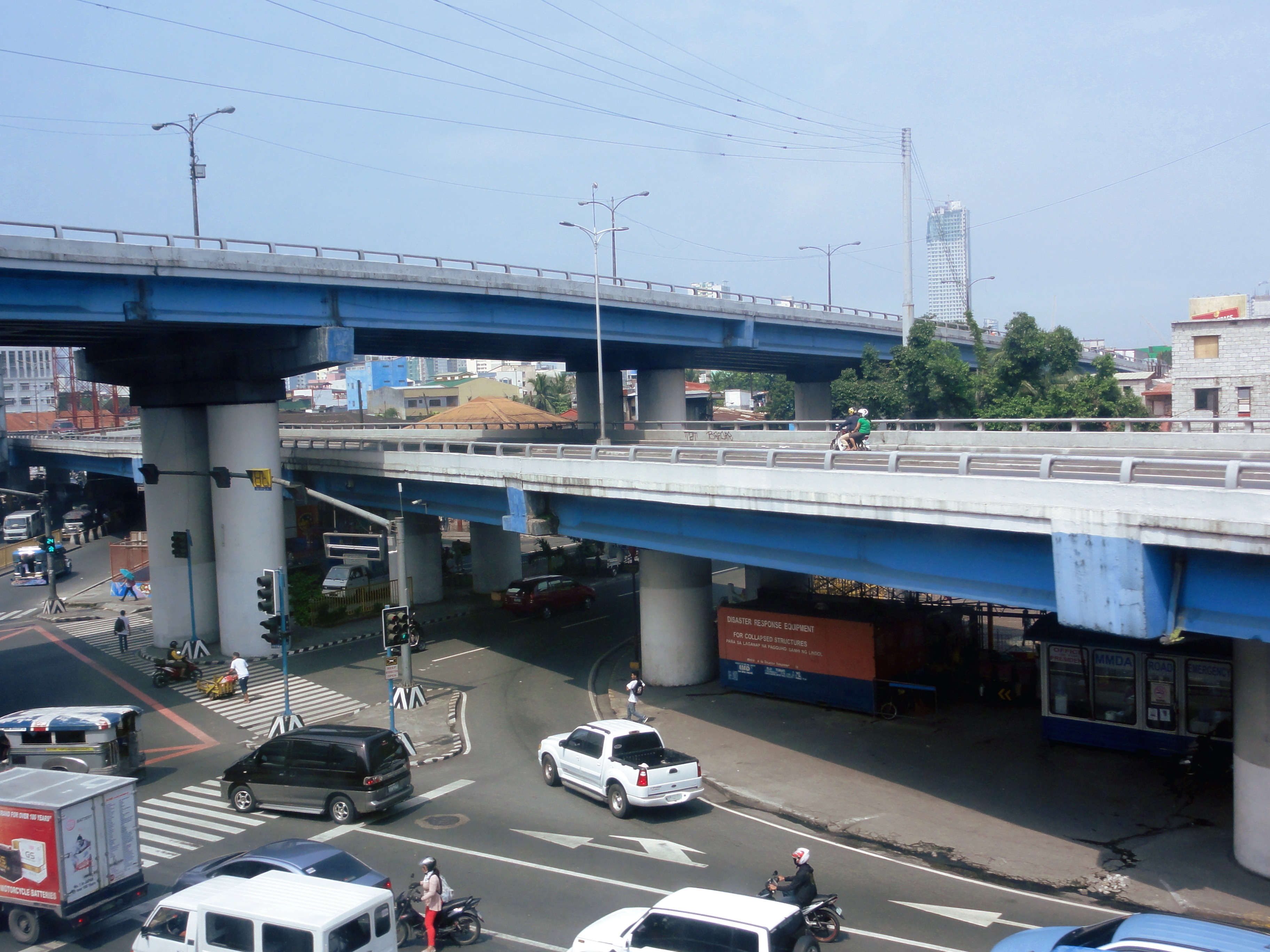 Nagtahan Interchange at the corner of Ramon Magsaysay Boulevard (Santa Mesa Boulevard), Lacson Avenue, Nagtahan Bridge, Legarda and J.P. Laurel, Streets, Santa Mesa, Manila